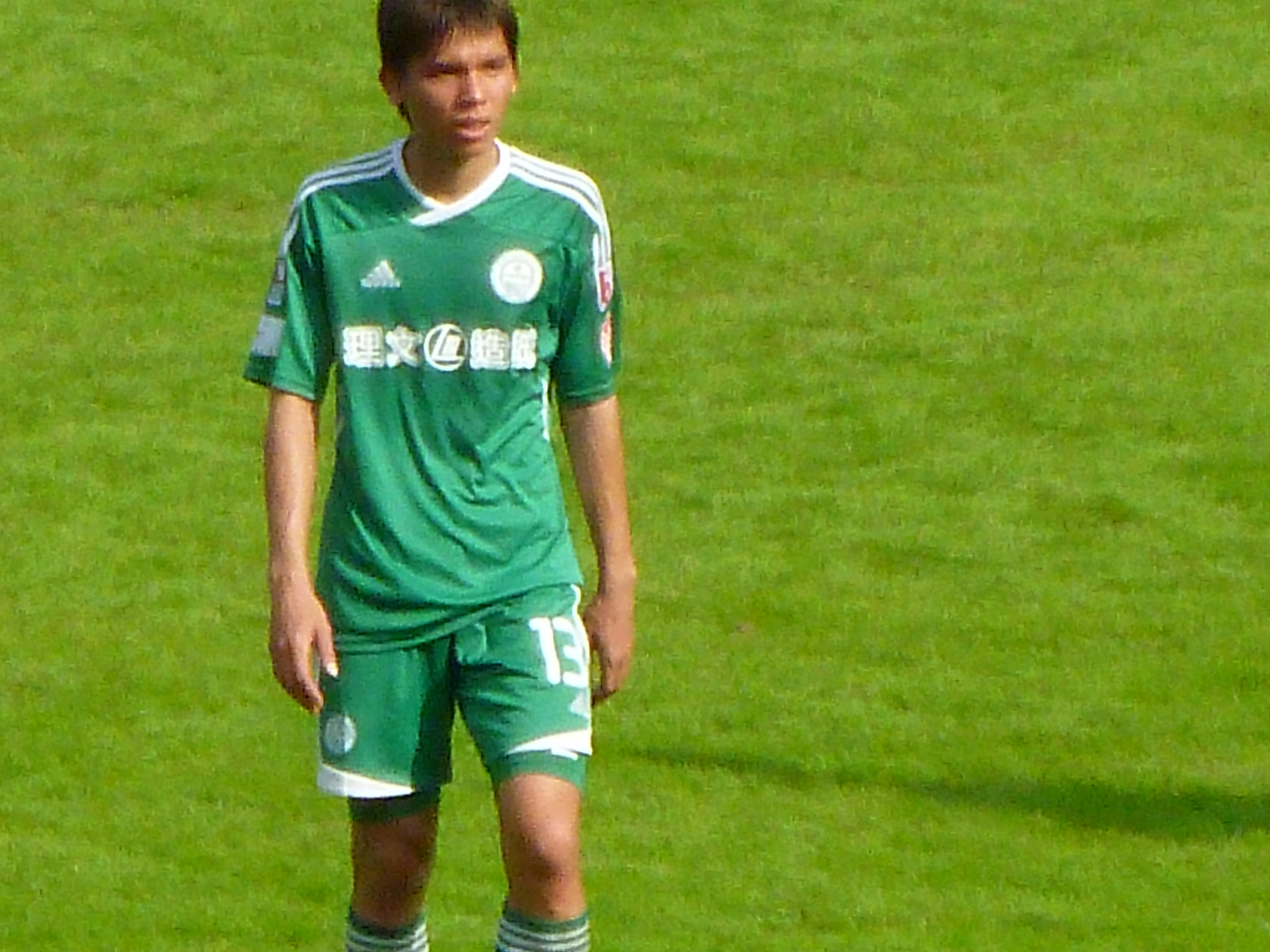 To Hon To (17 Mar 2012 Hong Kong First Division League, Tai Po vs South China, Tai Po Sports Ground)